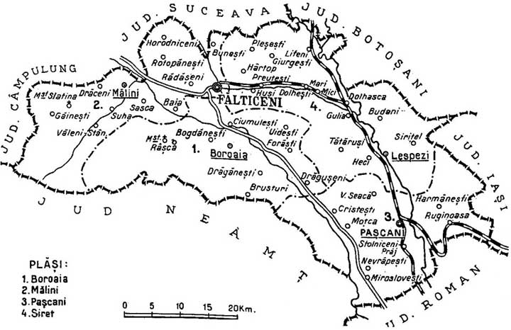 Map of Baia interwar county, Kingdom of Romania (1938).